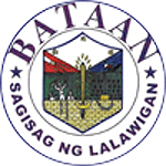 Provincial seal of Bataan, Philippines